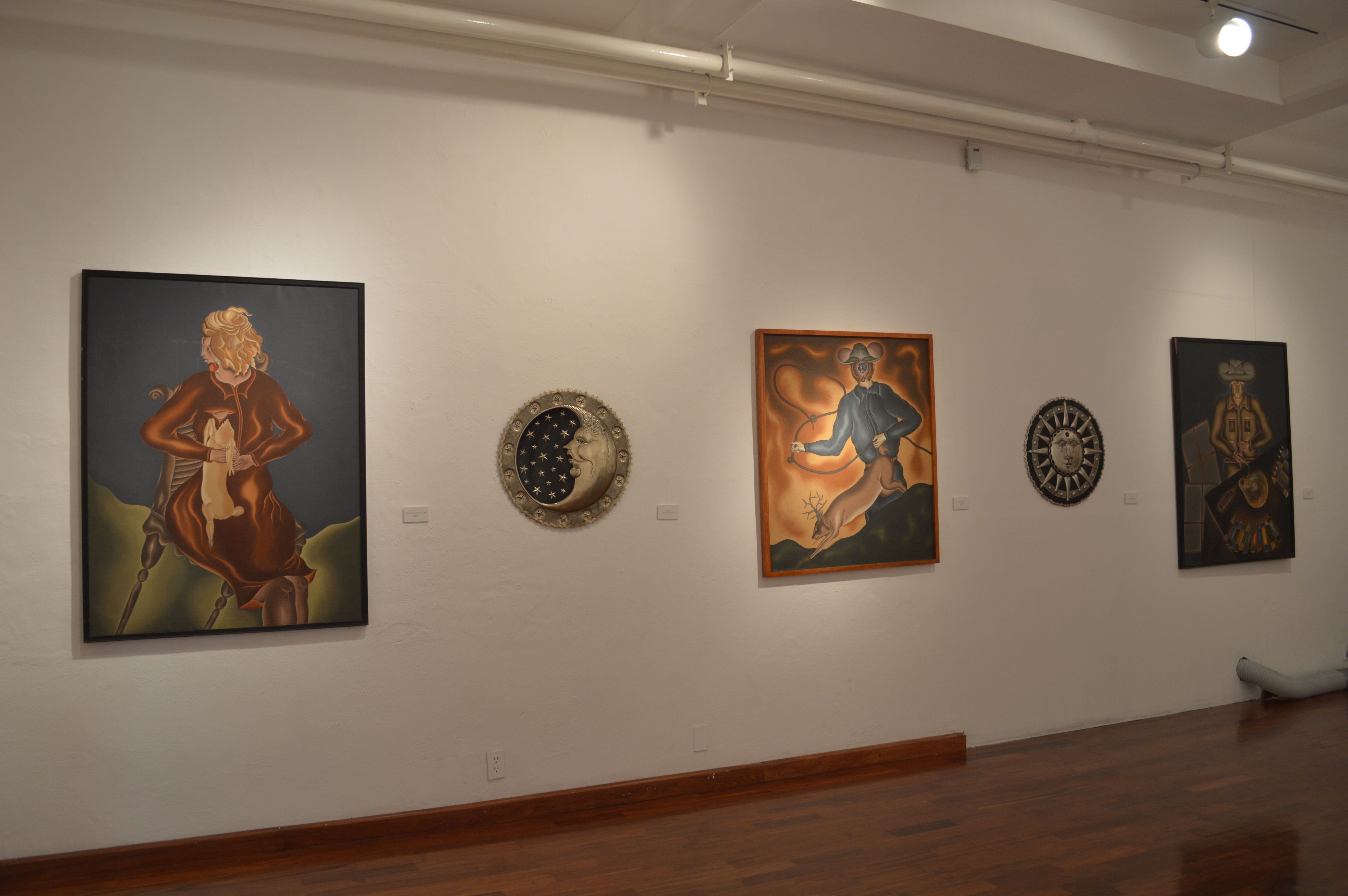 Paintings by Arnulfo Mendoza as part of the Mano Mágica exhibition at the Museo de los Pintores Oaxaqueños in the city of Oaxaca, Mexico